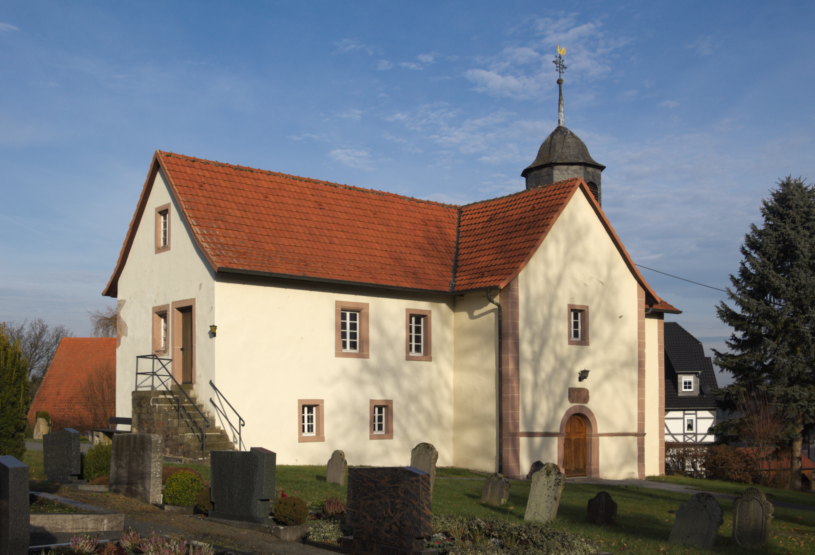 Protestant Church in Ober-Wegfurth, Schlitz, Hesse, Germany